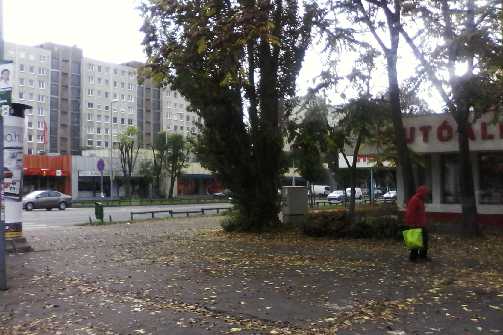 The Northwestern corner of the Fehérvári út/Andor utca intersetion, from Fehérvári út.